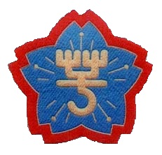 Emblrem Imoi elementary school